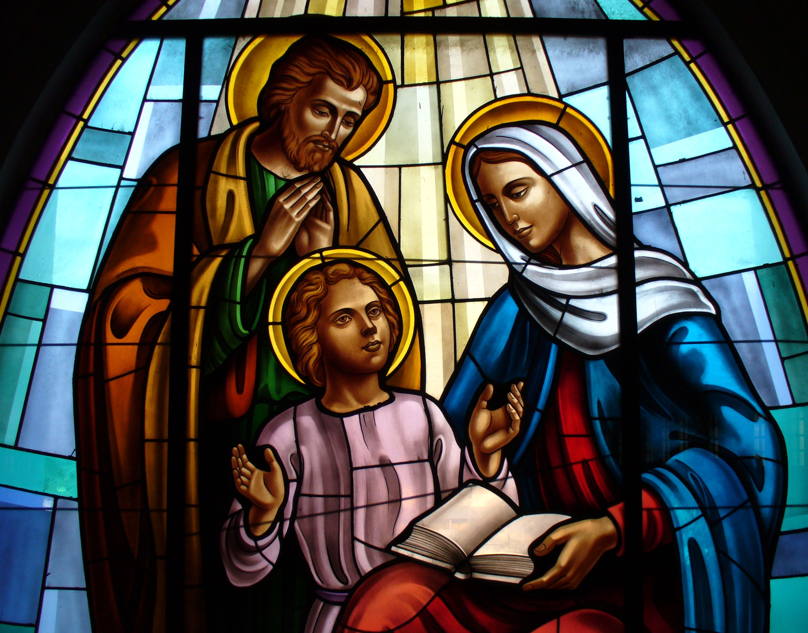 Cathedral of the Immaculate Conception, Dili, East Timor